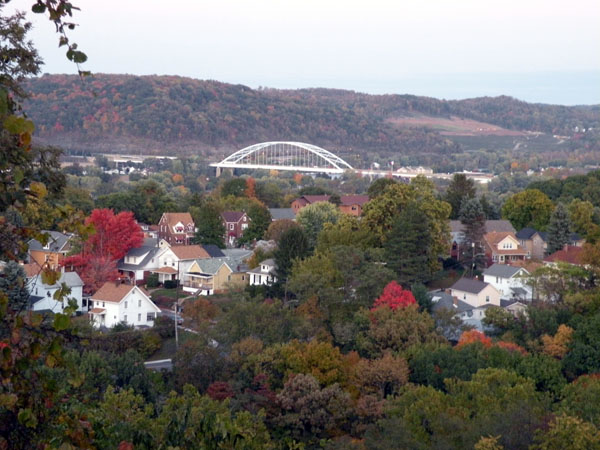 Picture of the Neville Island Bridge on October 18, 2009. This tied-arch bridge carries Interstate 79 and the Yellow Belt across the Ohio River and over Neville Island, west of Pittsburgh, Pennsylvania. This image was taken on top of the hill (approximately near 310 Park Drive) next to Cornell School District's High School Offices in Coraopolis, Pennsylvania.